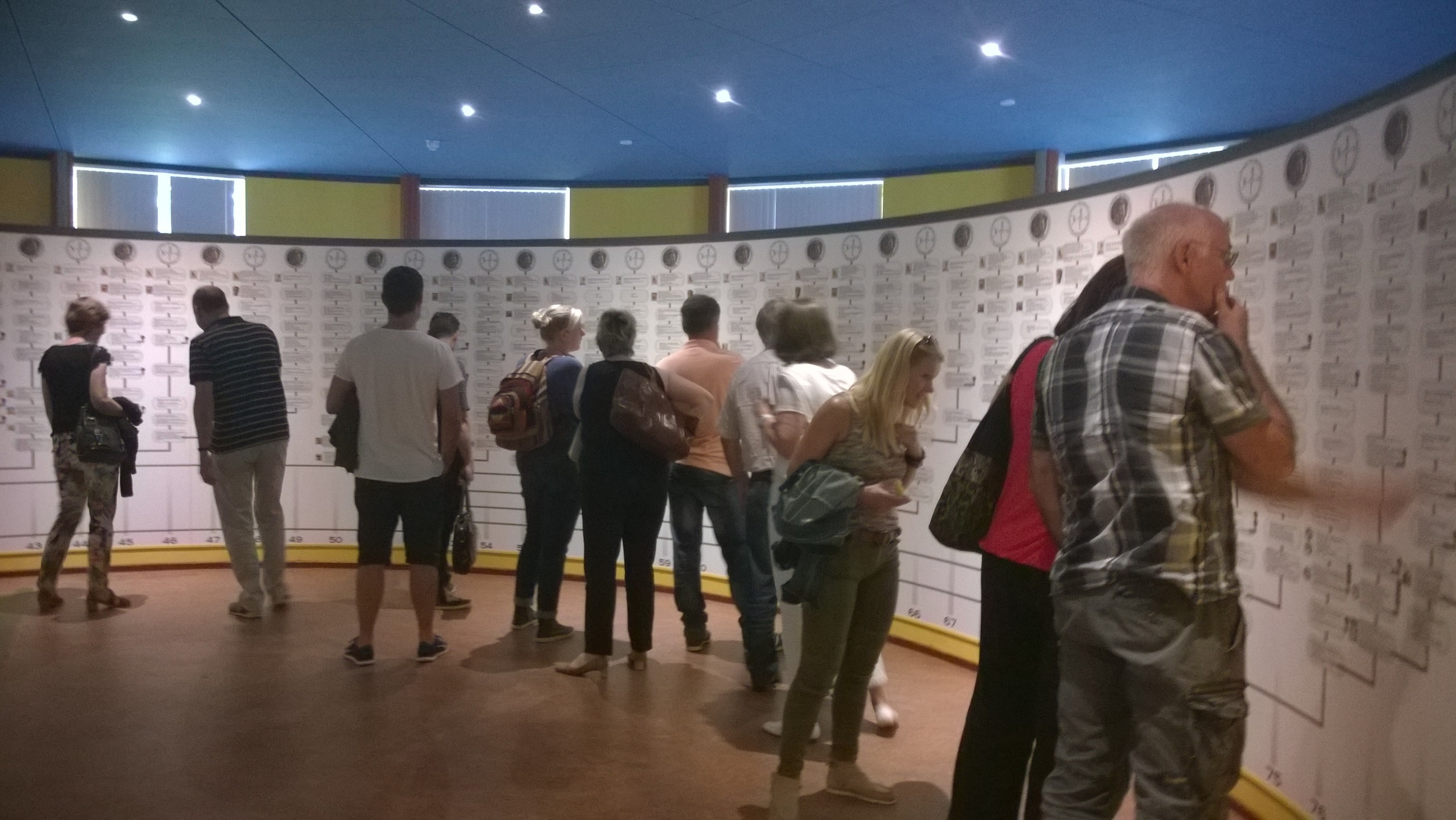 Museum Night at the International Museum for Family History, Eijsden, 2017